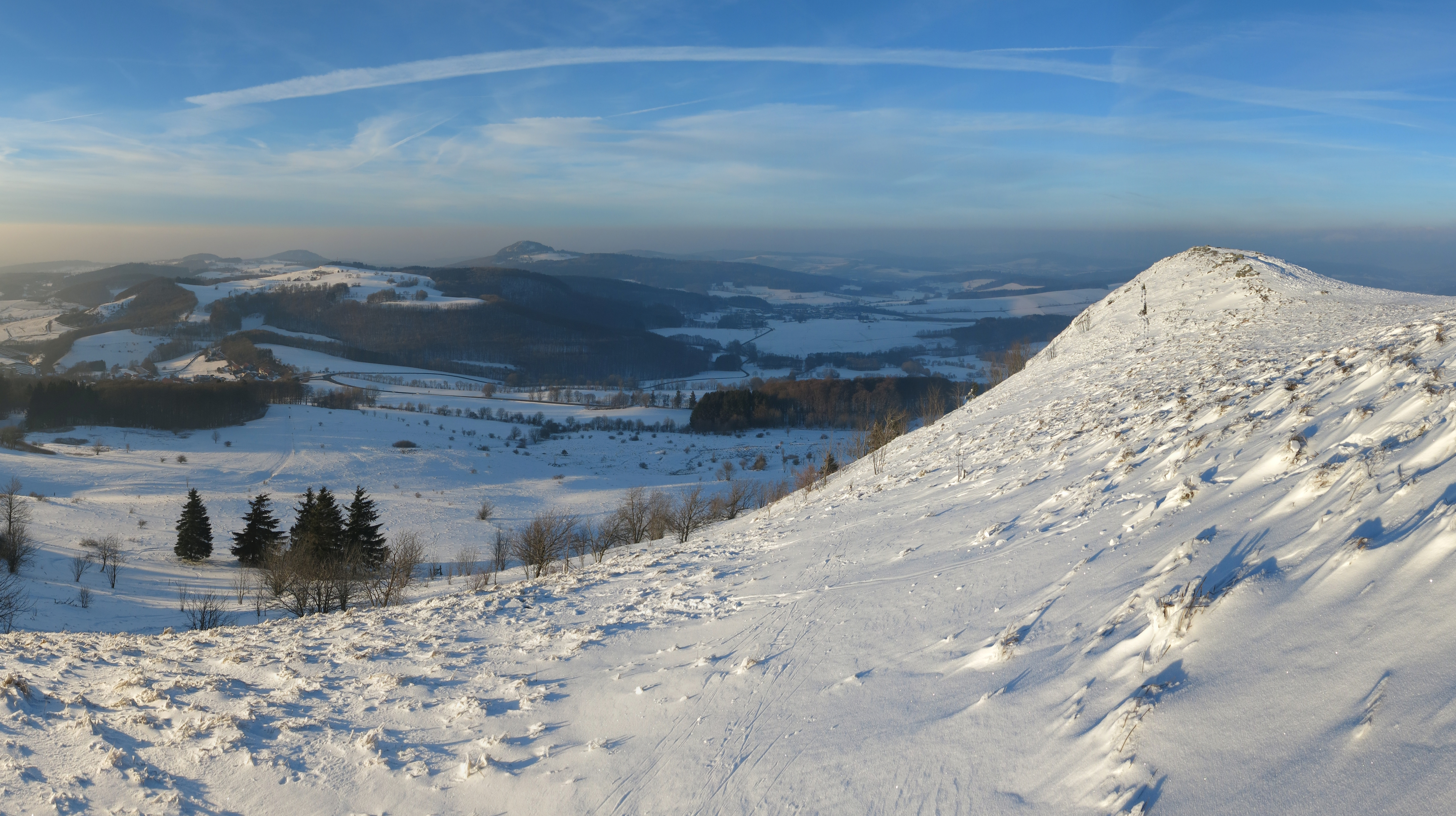 Winter on the Abtsrodaer Kuppe. View over the Rhön Montains